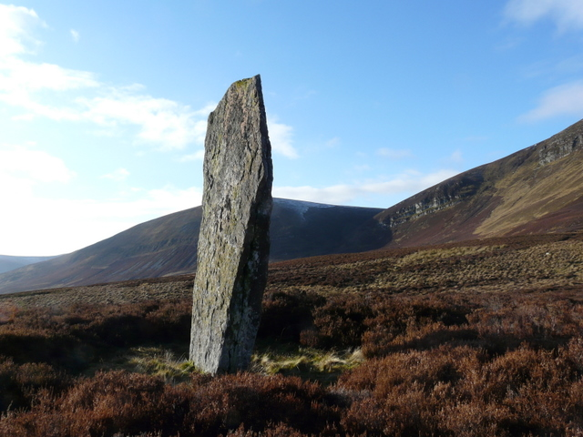 "Clach Mhic Mhios" stone in Glen Loth